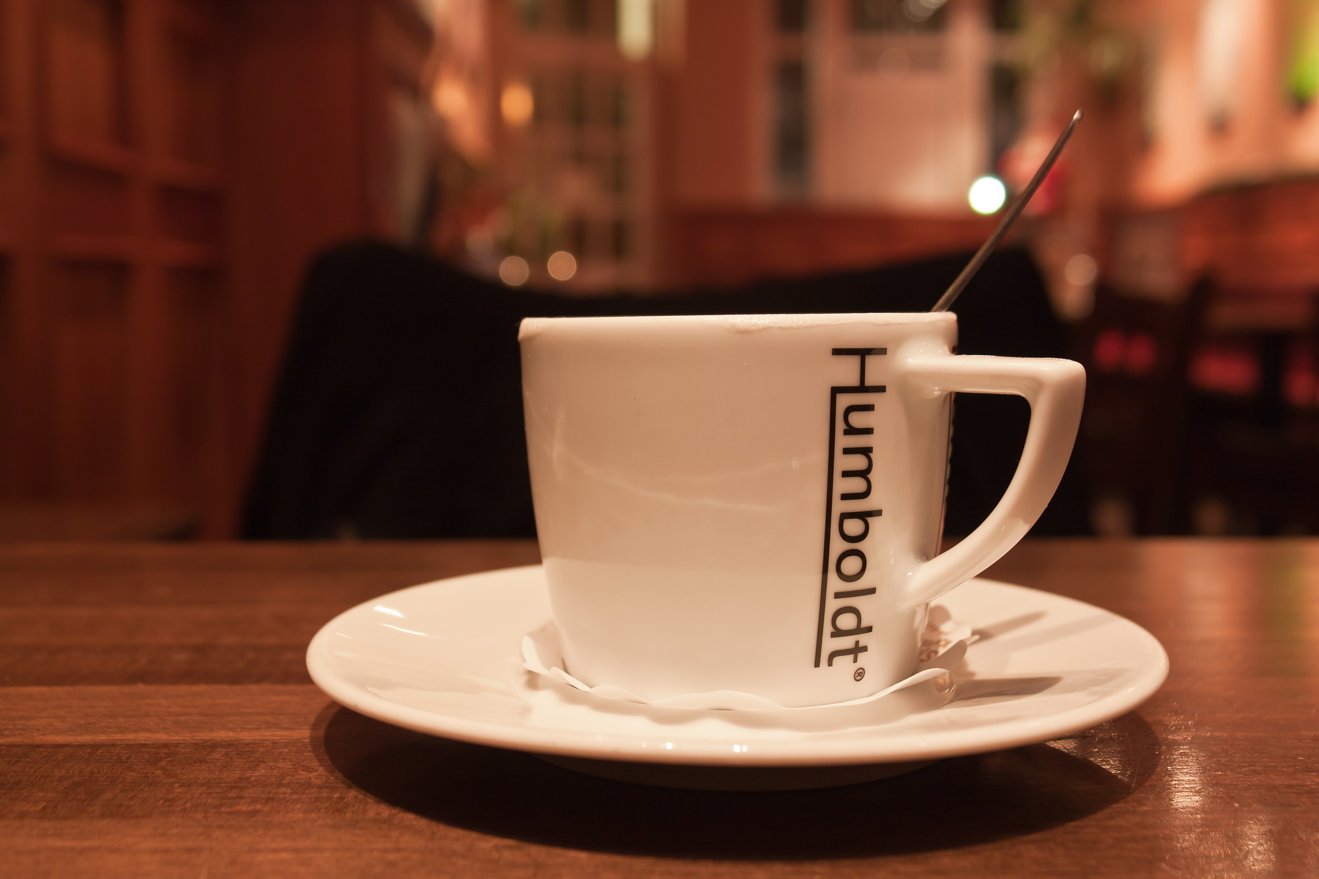 A mug. Image taken in a restaurant in Rostock.